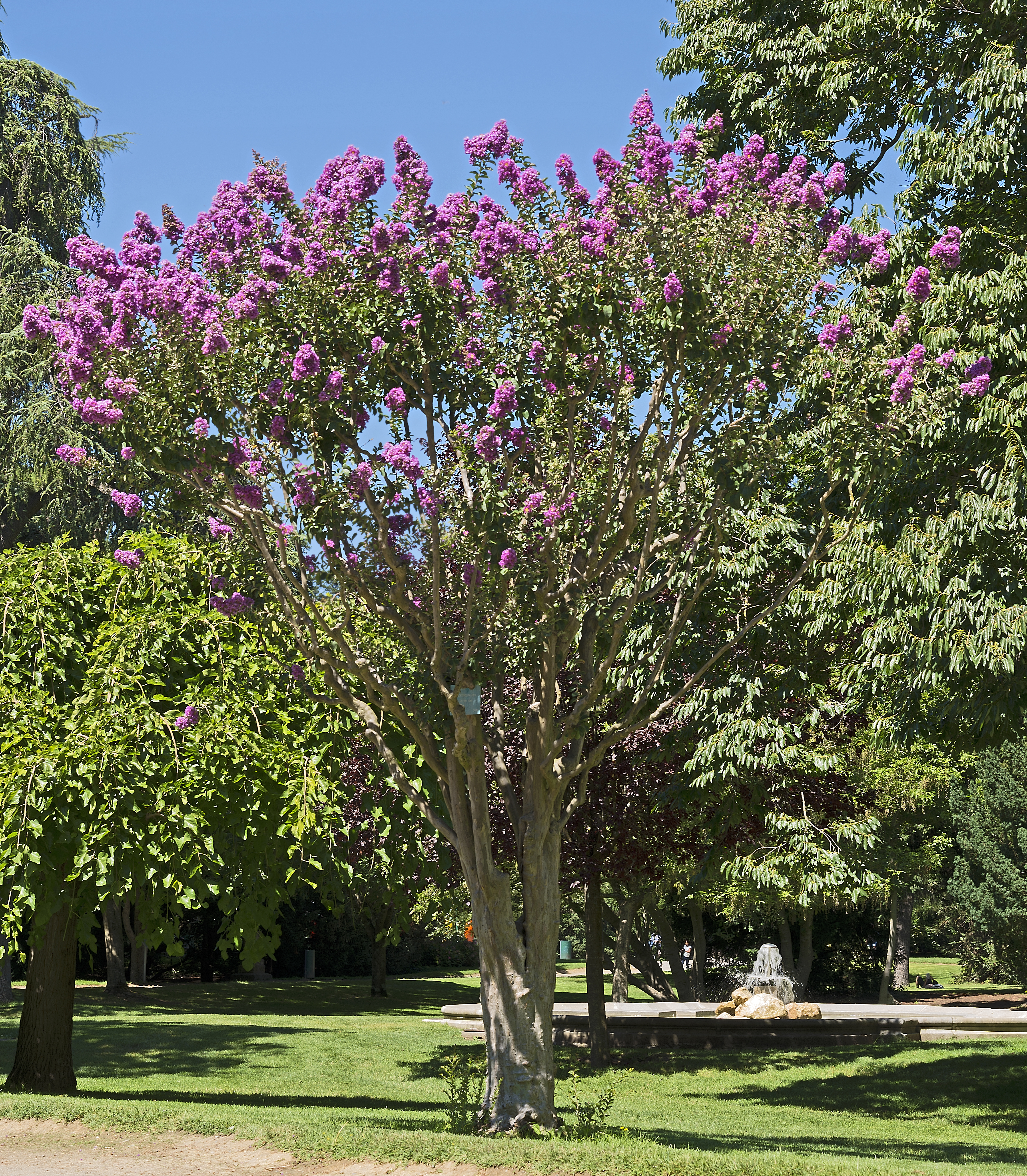 Crape myrtle.